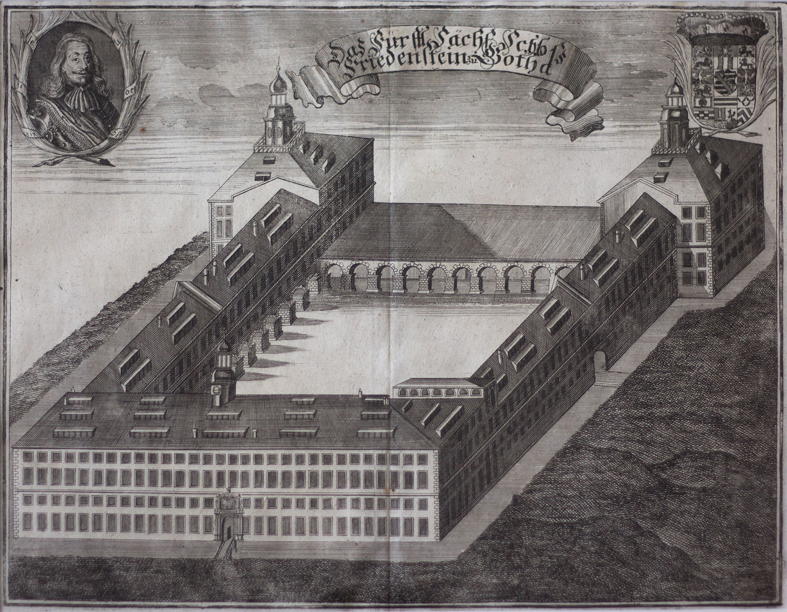 Gotha, Friedenstein Palace, etching from "Gotha Diplomatica", 1717